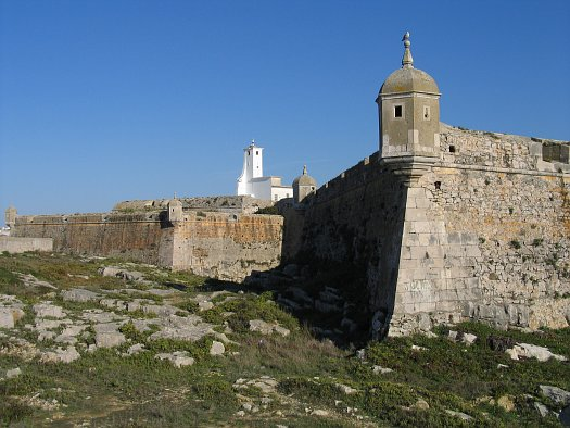 Photography by Osvaldo Gago